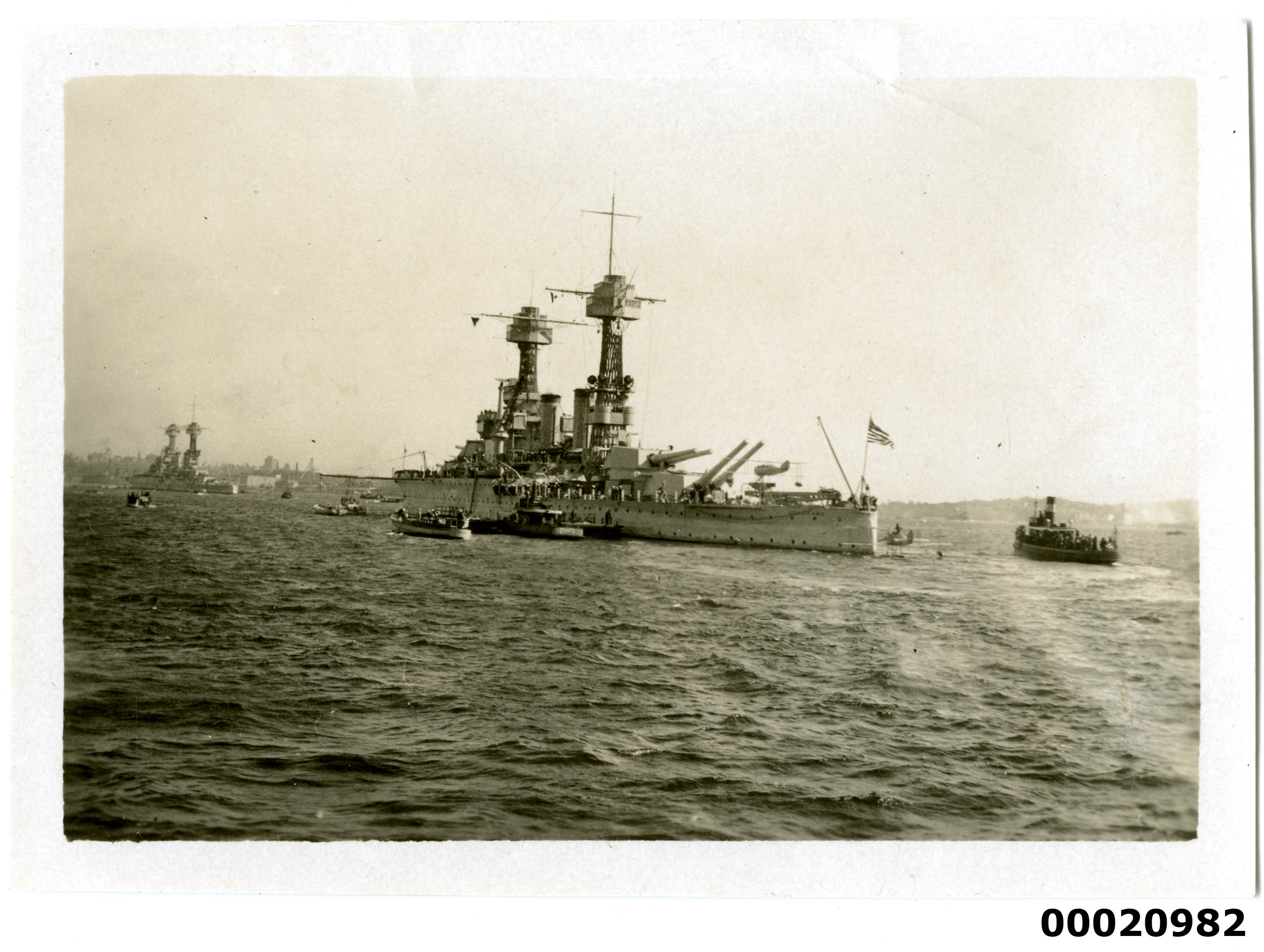 USS COLORADO (III) in Sydney Harbour with Garden Island to the right in the background. On 23 July 1925, the United States Navy visited Sydney. The fleet departed for New Zealand on 6 August. The fleet included USS CALIFORNIA (V), USS COLORADO (III), USS TENNESSEE (III), USS MARYLAND (III), USS WEST VIRGINIA (II), USS NEW MEXICO (I), USS MISSISSIPPI (III) and USS IDAHO (IV). This photo is part of the Australian National Maritime Museum’s Samuel J. Hood Studio collection. Sam Hood (1872-1953) was a Sydney photographer with a passion for ships. His 60-year career spanned the romantic age of sail and two world wars. The photos in the collection were taken mainly in Sydney and Newcastle during the first half of the 20th century. The ANMM undertakes research and accepts public comments that enhance the information we hold about images in our collection. This record has been updated accordingly. Photographer: Samuel J. Hood Studio Collection Object no. 00020982